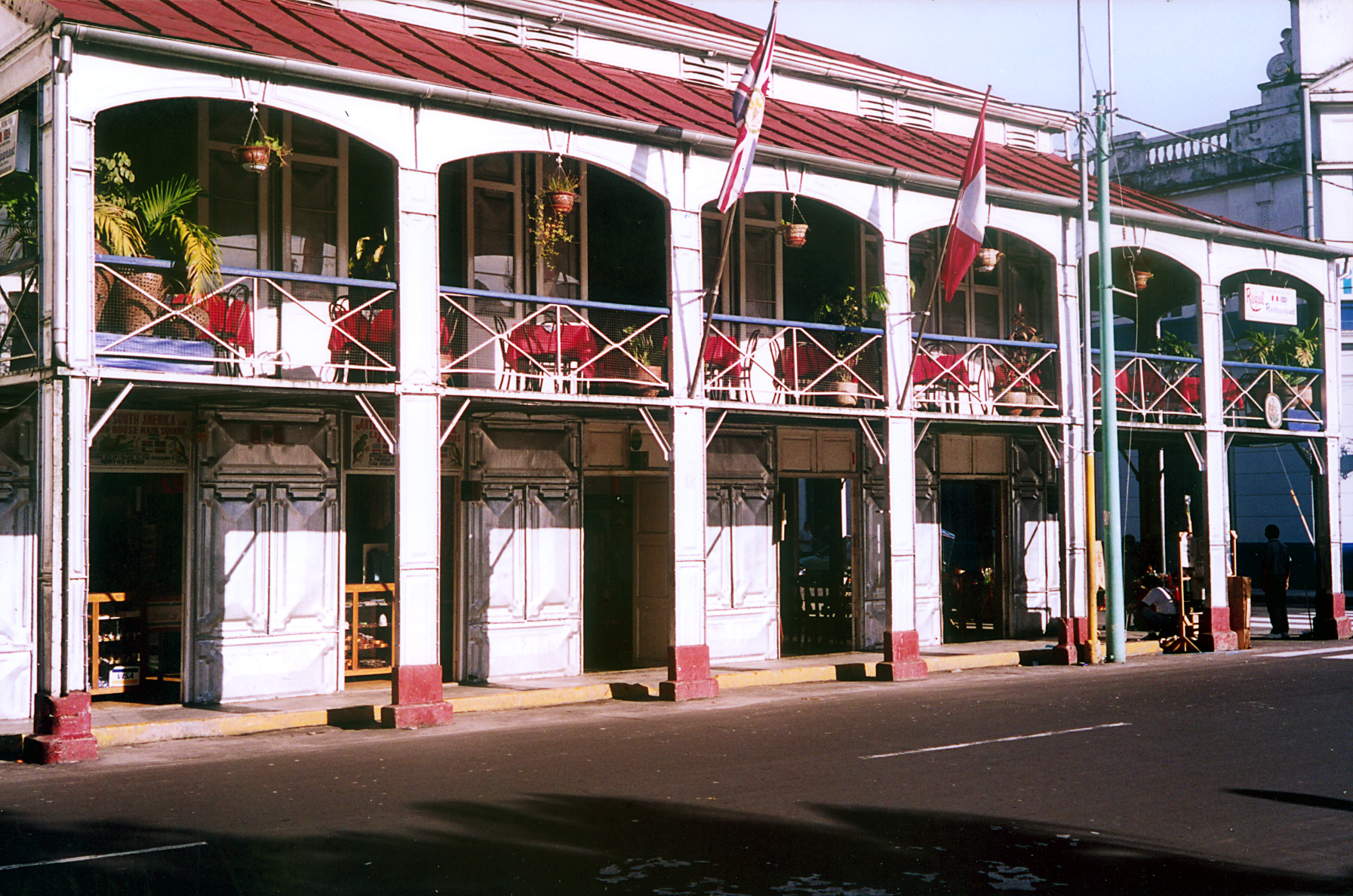 Casa de Fierro — Iquitos, Peru. Prefabricated steel house, designed by Belgian architect Joseph Danly